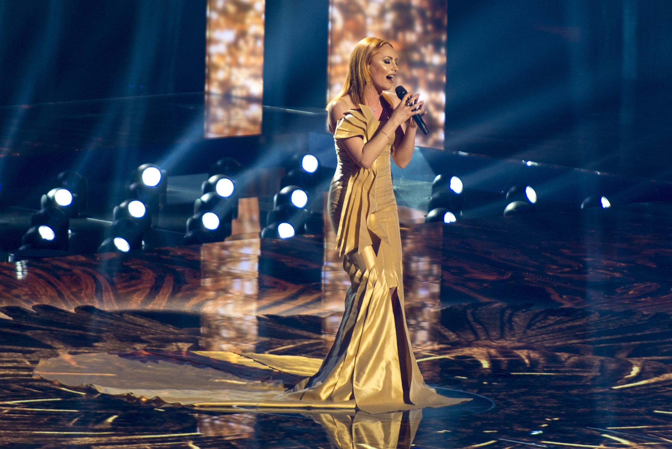 Eneda Tarifa representing Albania with the song "Fairytale" during a rehearsal before the second semi final of the Eurovision Song Contest 2016 in Stockholm. (Help translate this text)